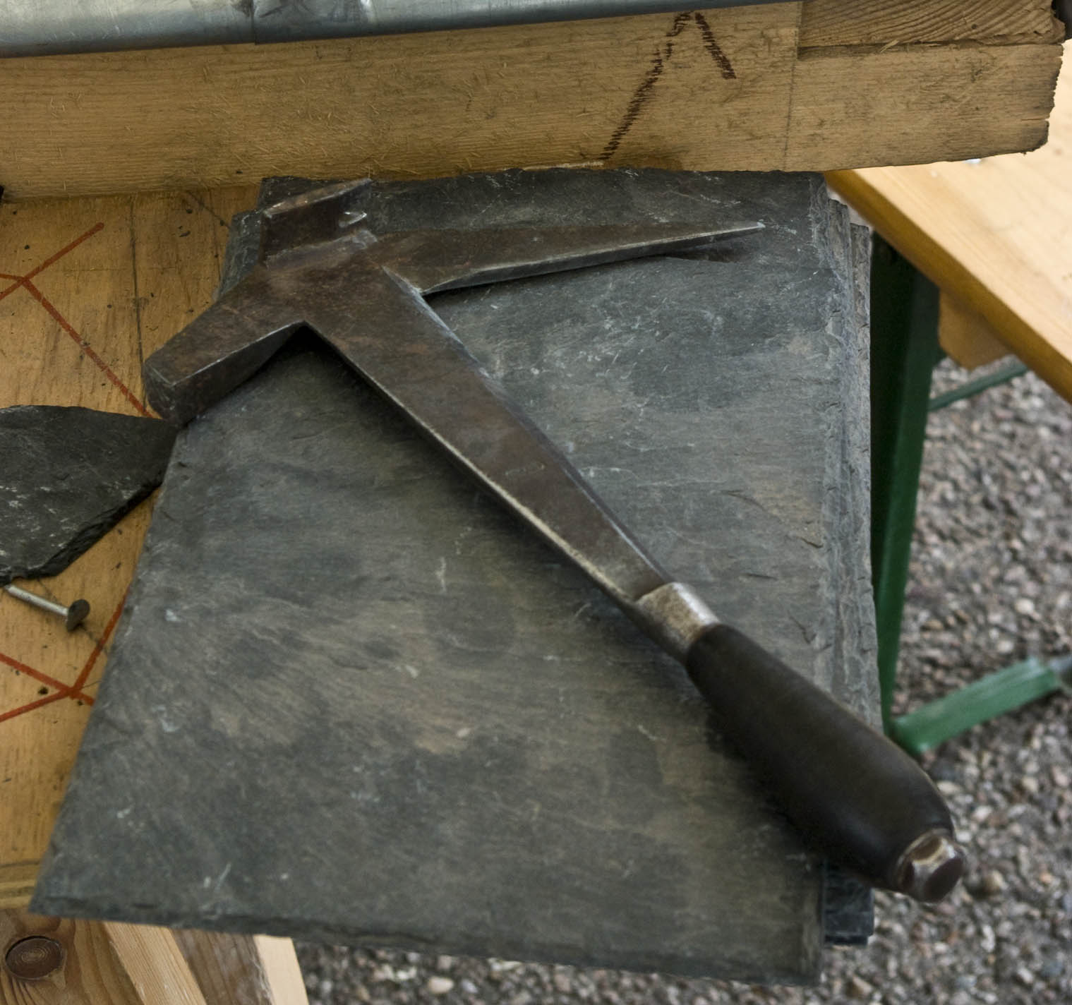 A Hammer for Slate worker